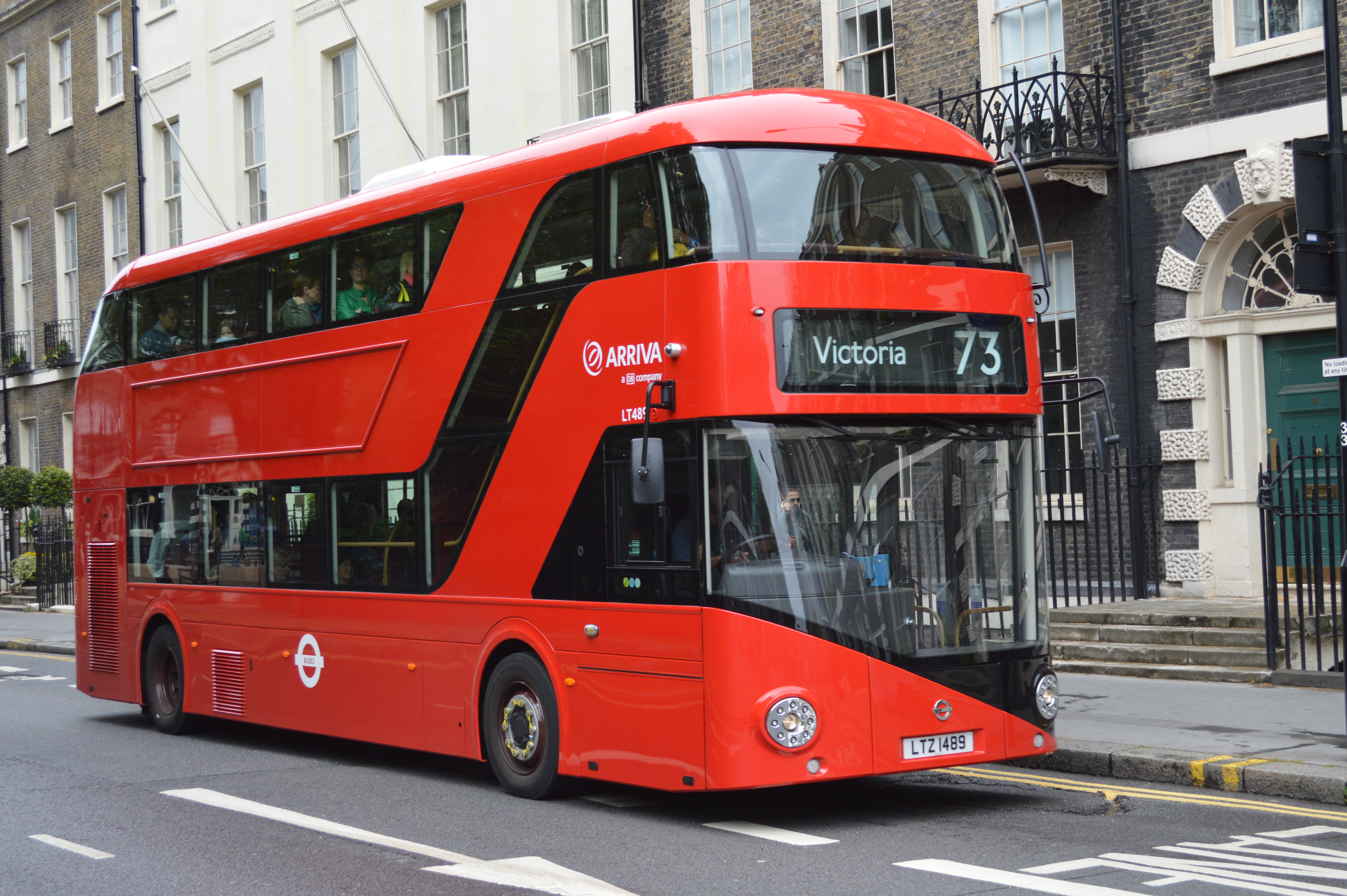 Arriva London New Routemaster LT 489 (LTZ 1489) is seen in Gower Street, Central London on London route 73 to Victoria. This is seen on Saturday 23 May 2015.